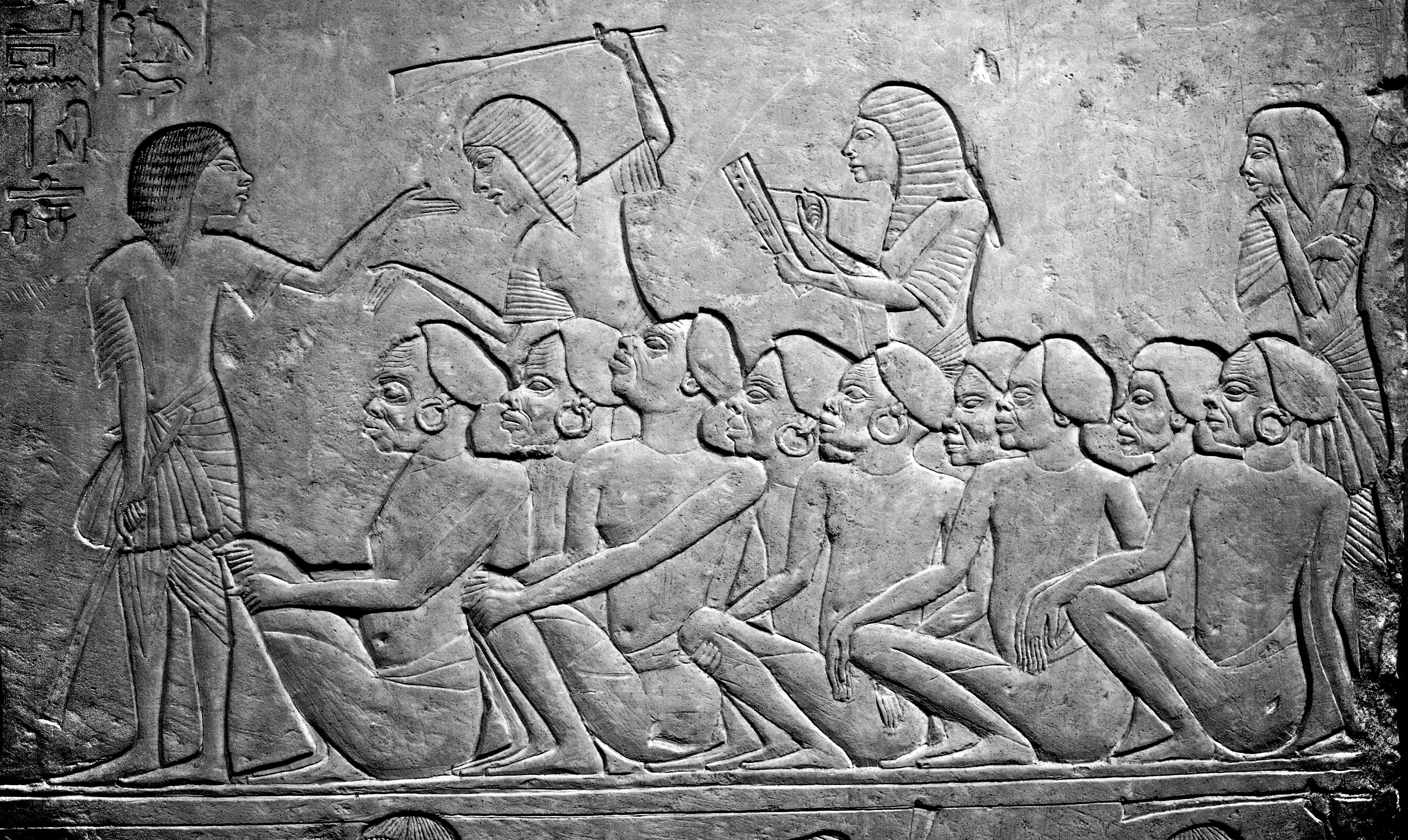 Ancient Egyptian slave market, with Nubian slaves waiting to be sold. Archaeological Museum, Bologna.